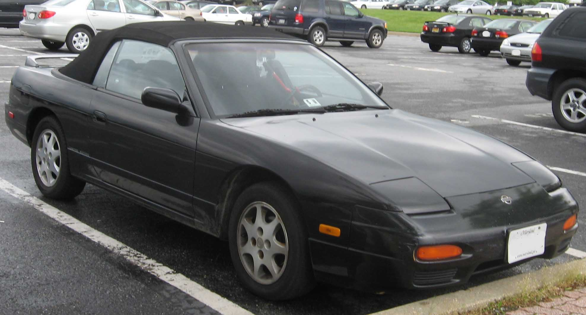 1992-1994 Nissan 240SX photographed in College Park, Maryland, USA.